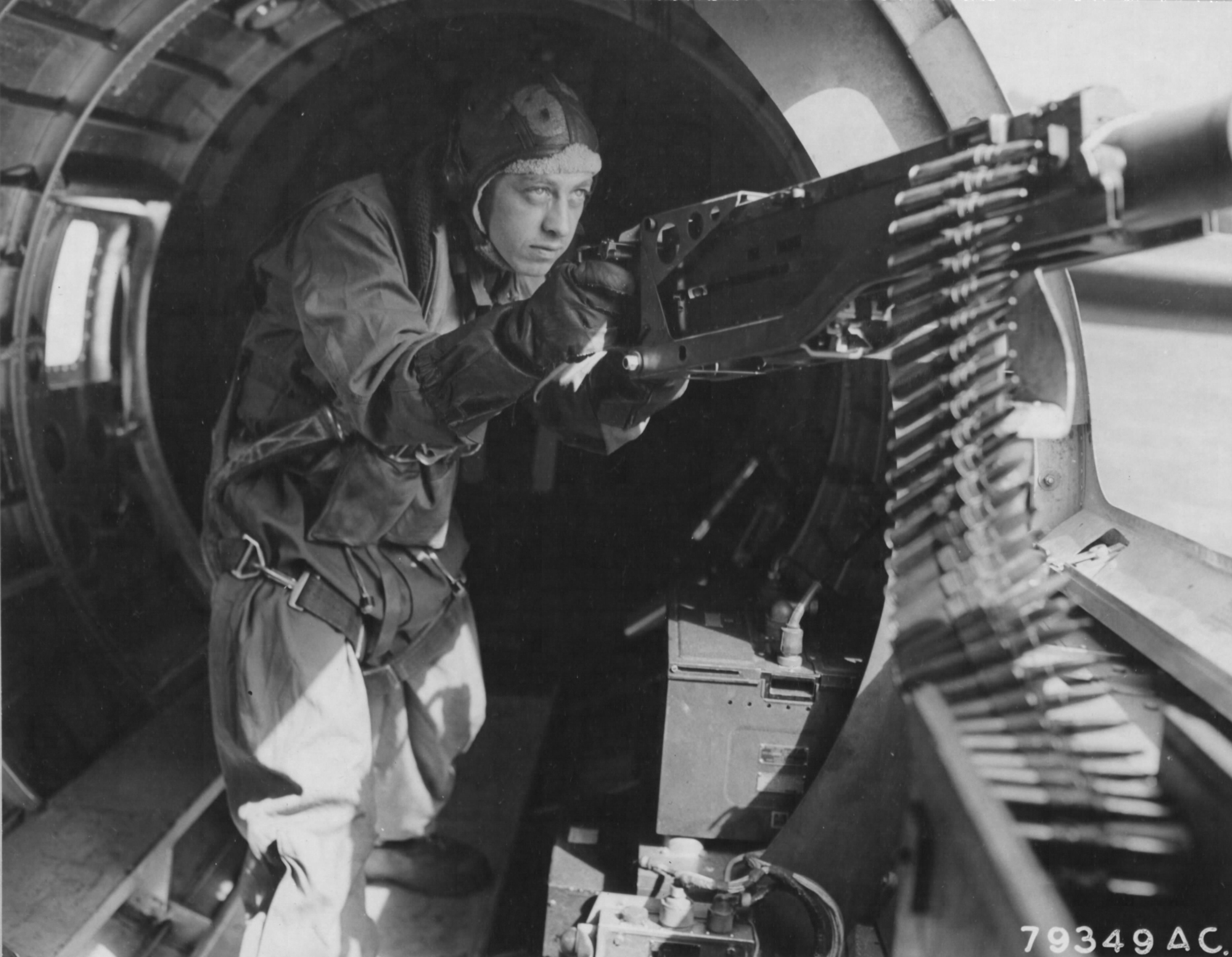 S/Sgt. Maynard Smith was a ball turret gunner in the 423rd Bomb Squadron, 306th Bomb Group, 8th Air Force. He won the Medal of Honor for the May 1, 1943 mission to bomb the submarine pens in Saint-Nazaire,France.